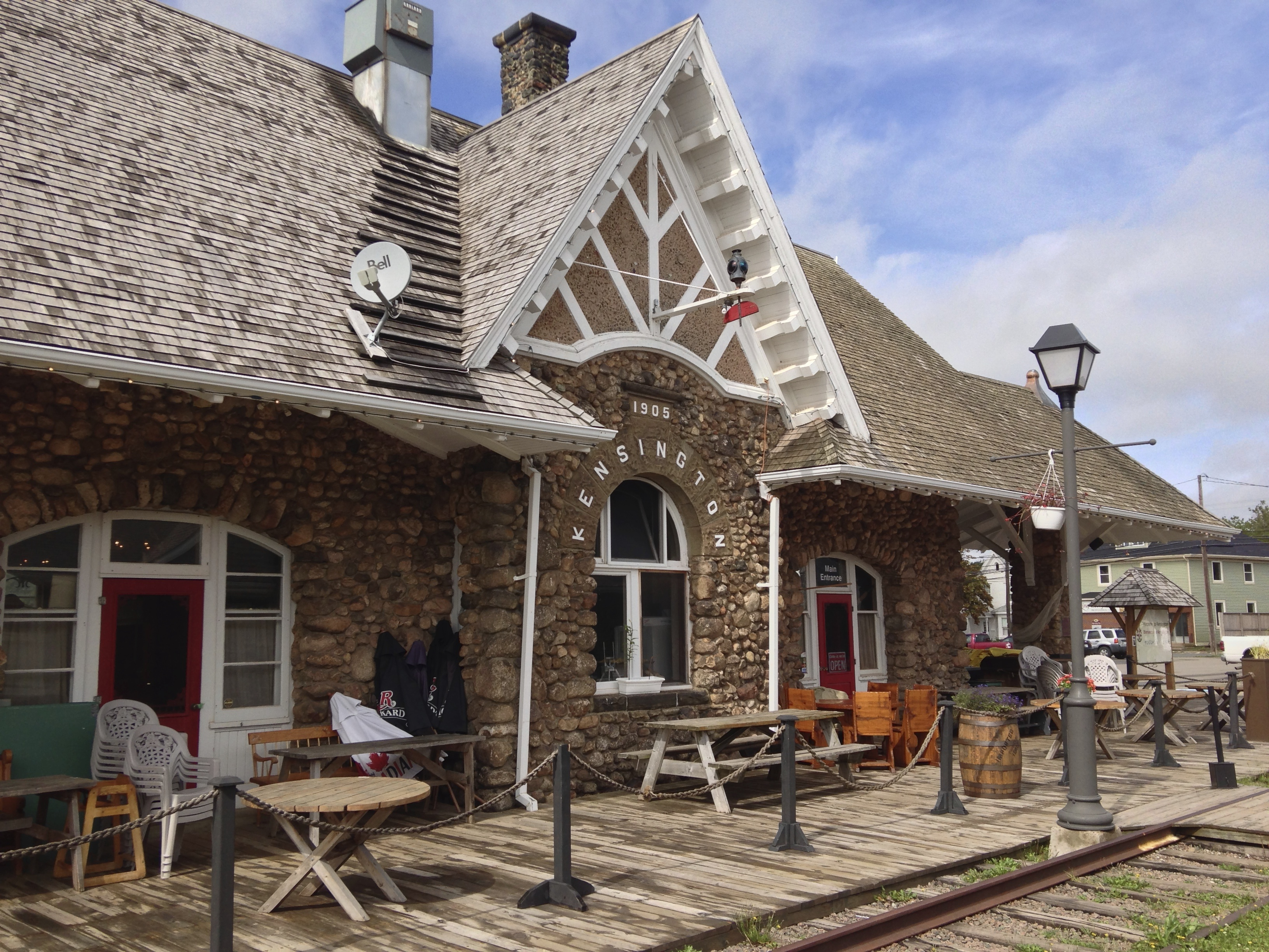 Old trainstation in Kensington, PEI